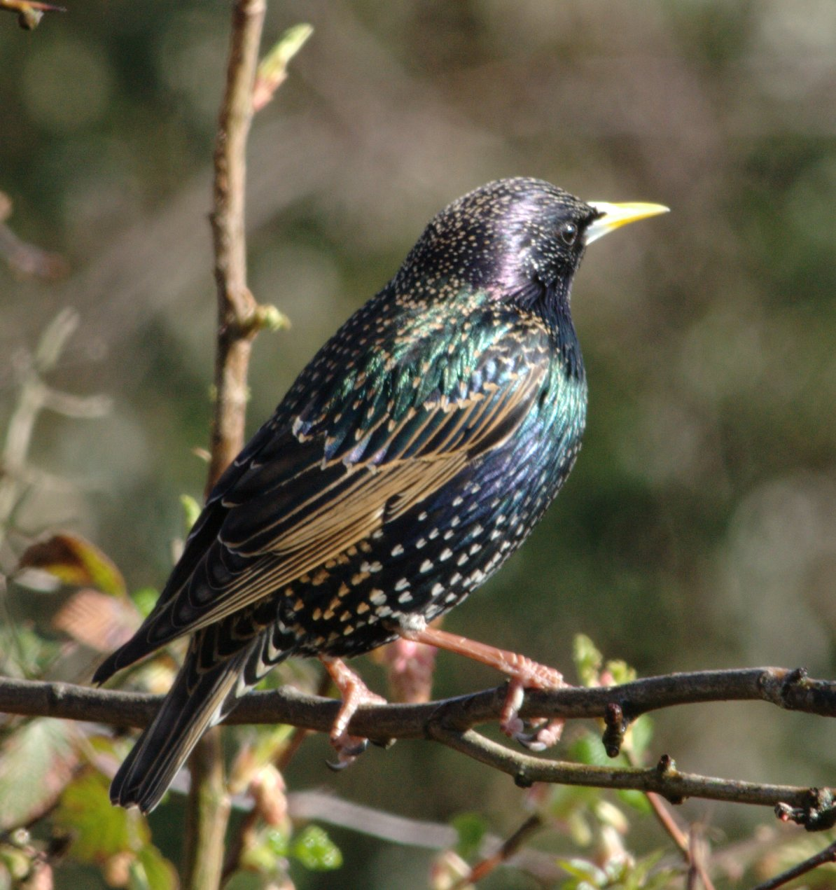 A very colourful Starling (Sturnus vulgaris).